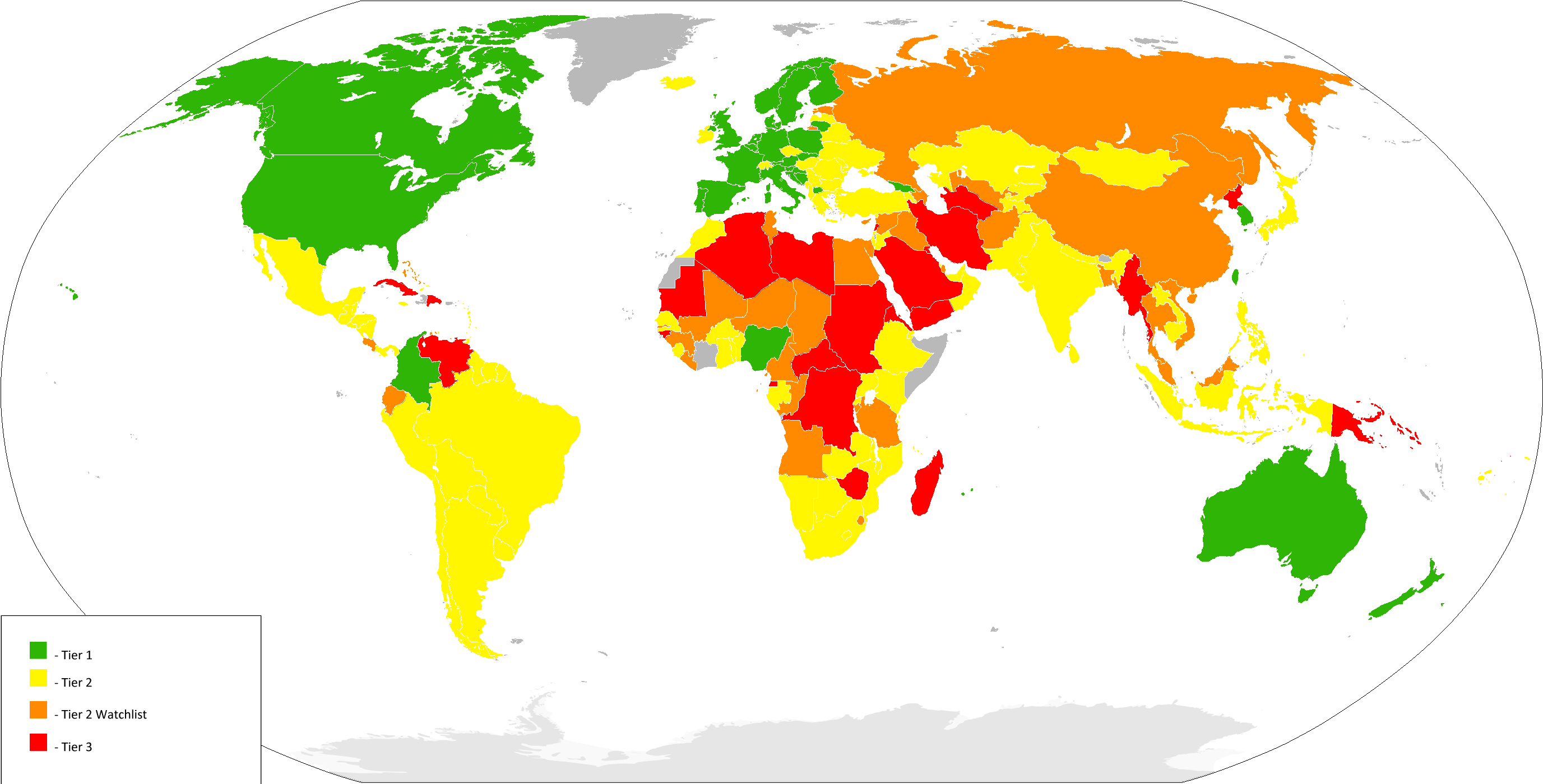 Trafficking In Persons Report Map 2011 Legend: Green: Tier 1 Yellow: Tier 2 Orange: Tier 2½ Red: Tier 3